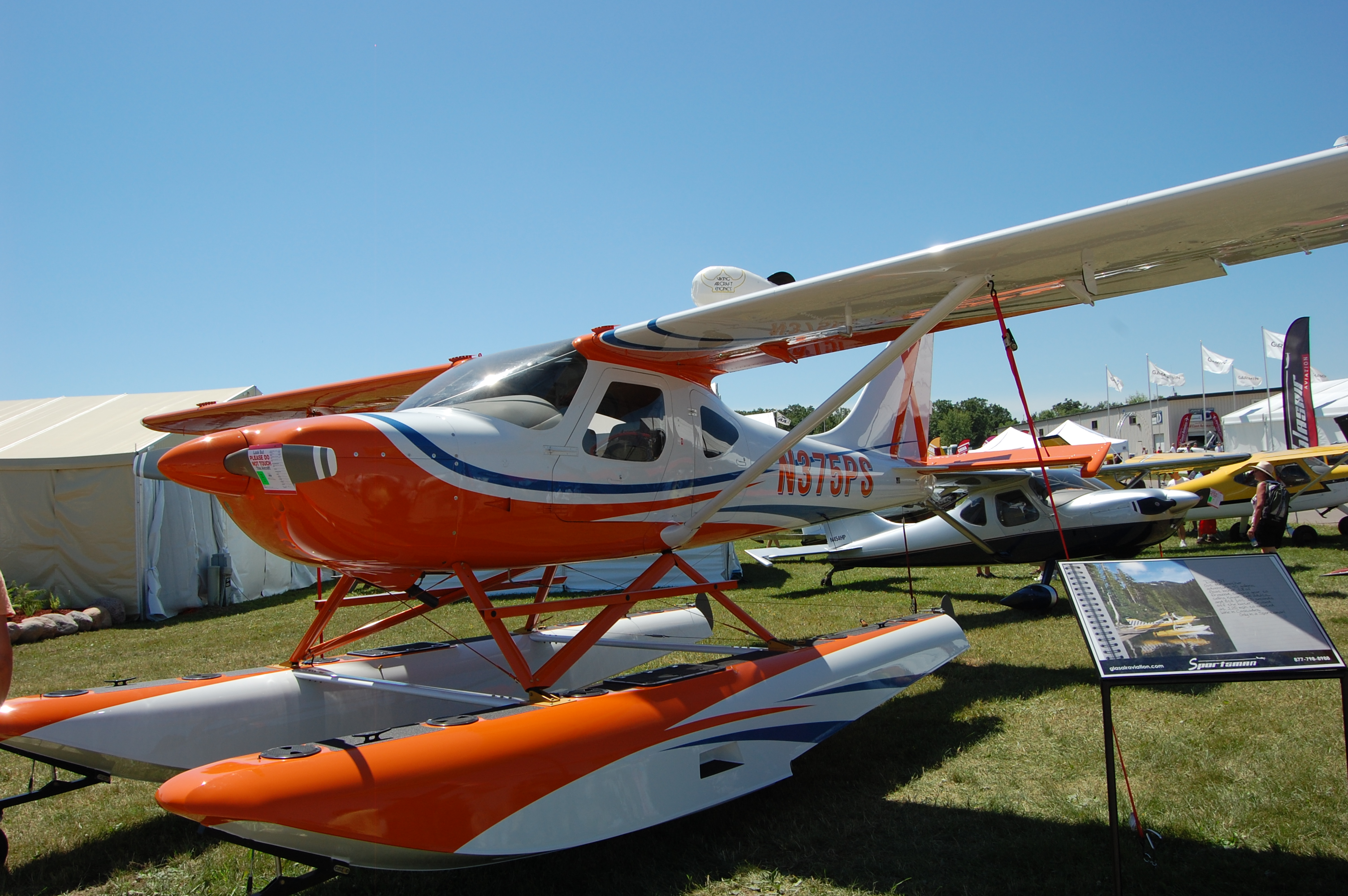 An orange and white Glasair Sportsman 2+2 is in its float configuration at EAA AirVenture 2011.